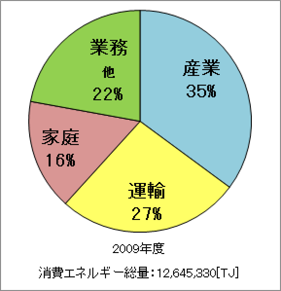 Pie chart of Japanese energy usage by sector.